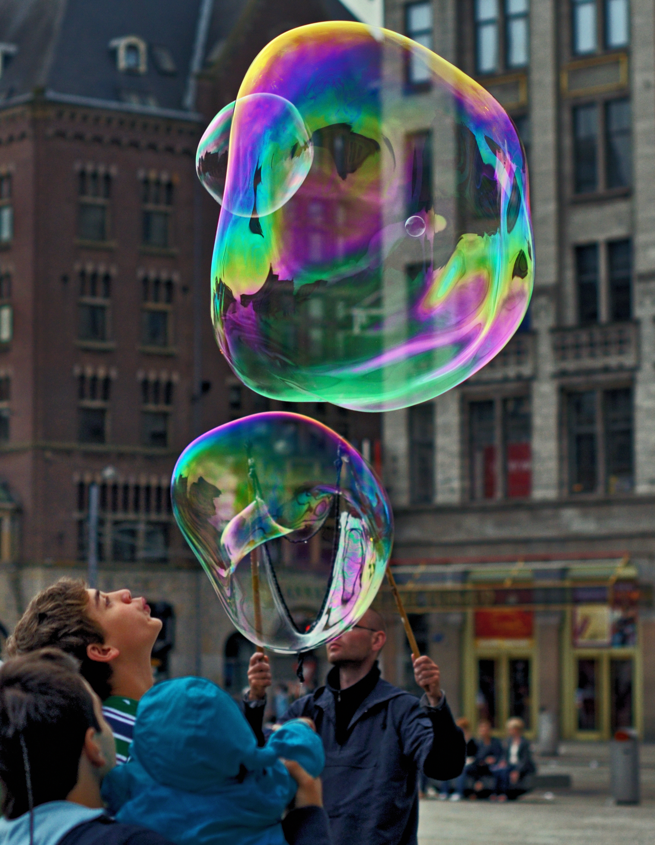 Magic bubbles. Amsterdam, Netherlands